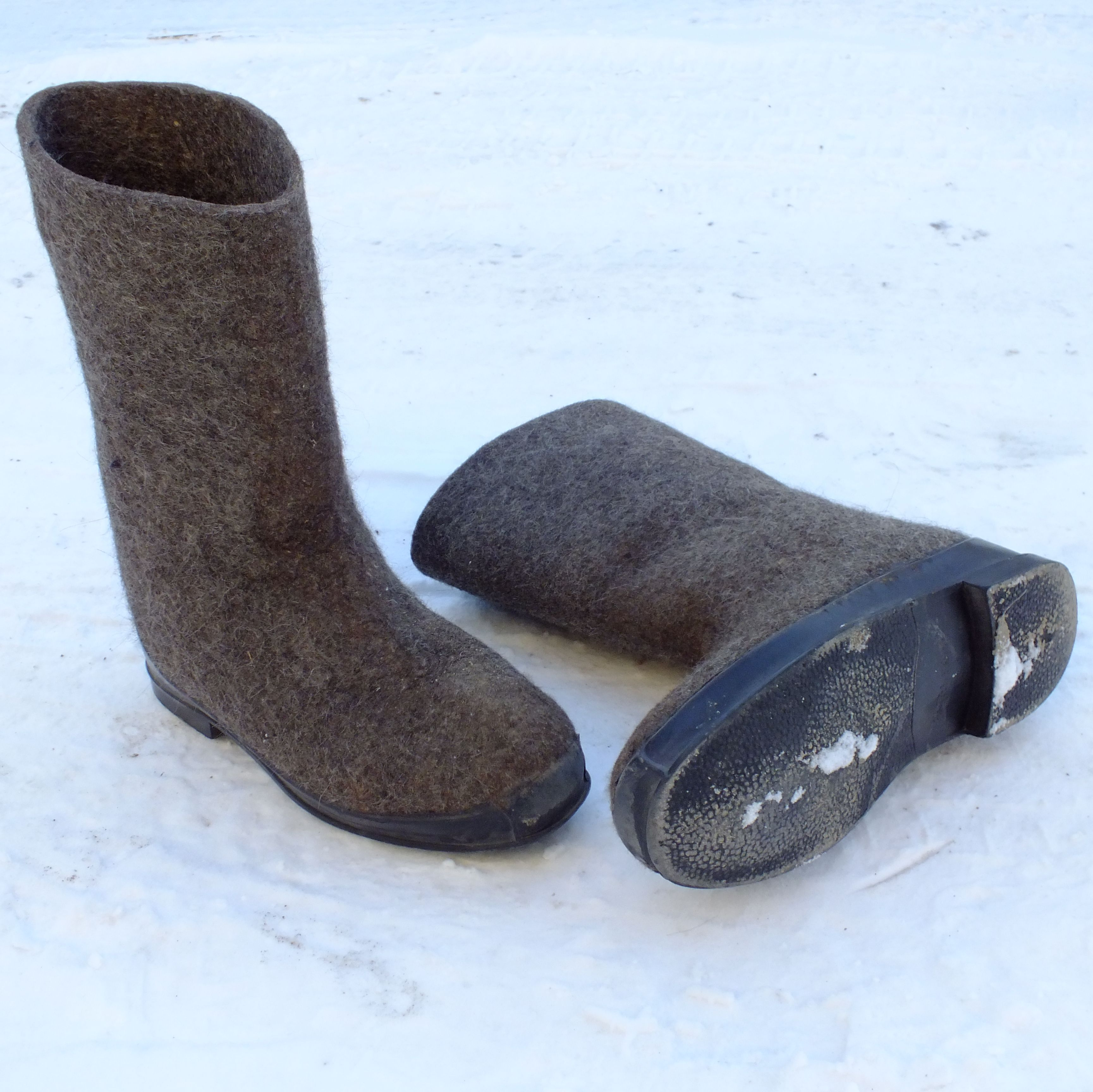 Valenki